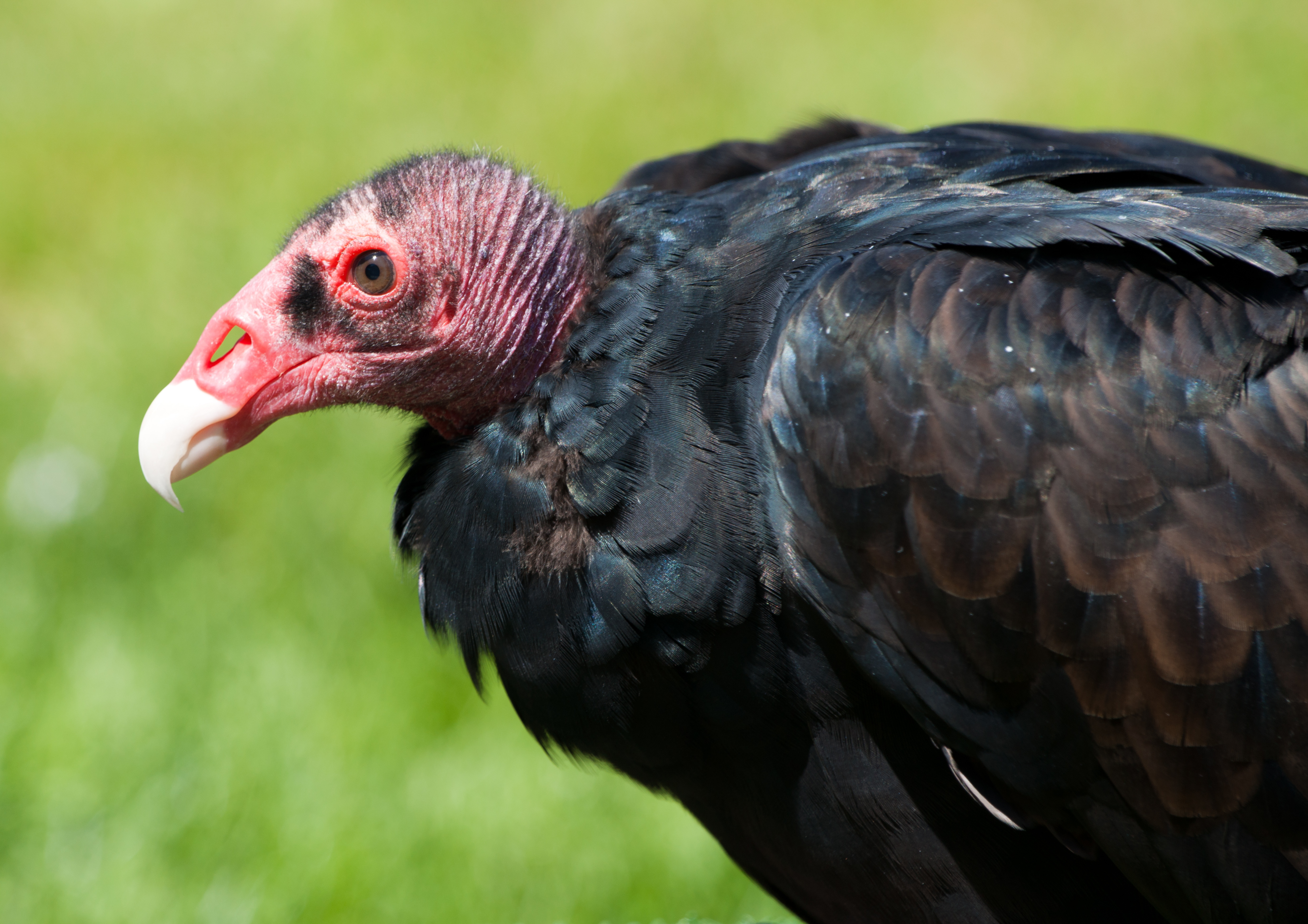 A Turkey Vulture at San Francisco Zoo, California, USA.